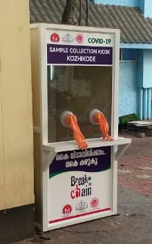 A testing kiosk for covid-19 set up at Government Medical College, Kozhikode